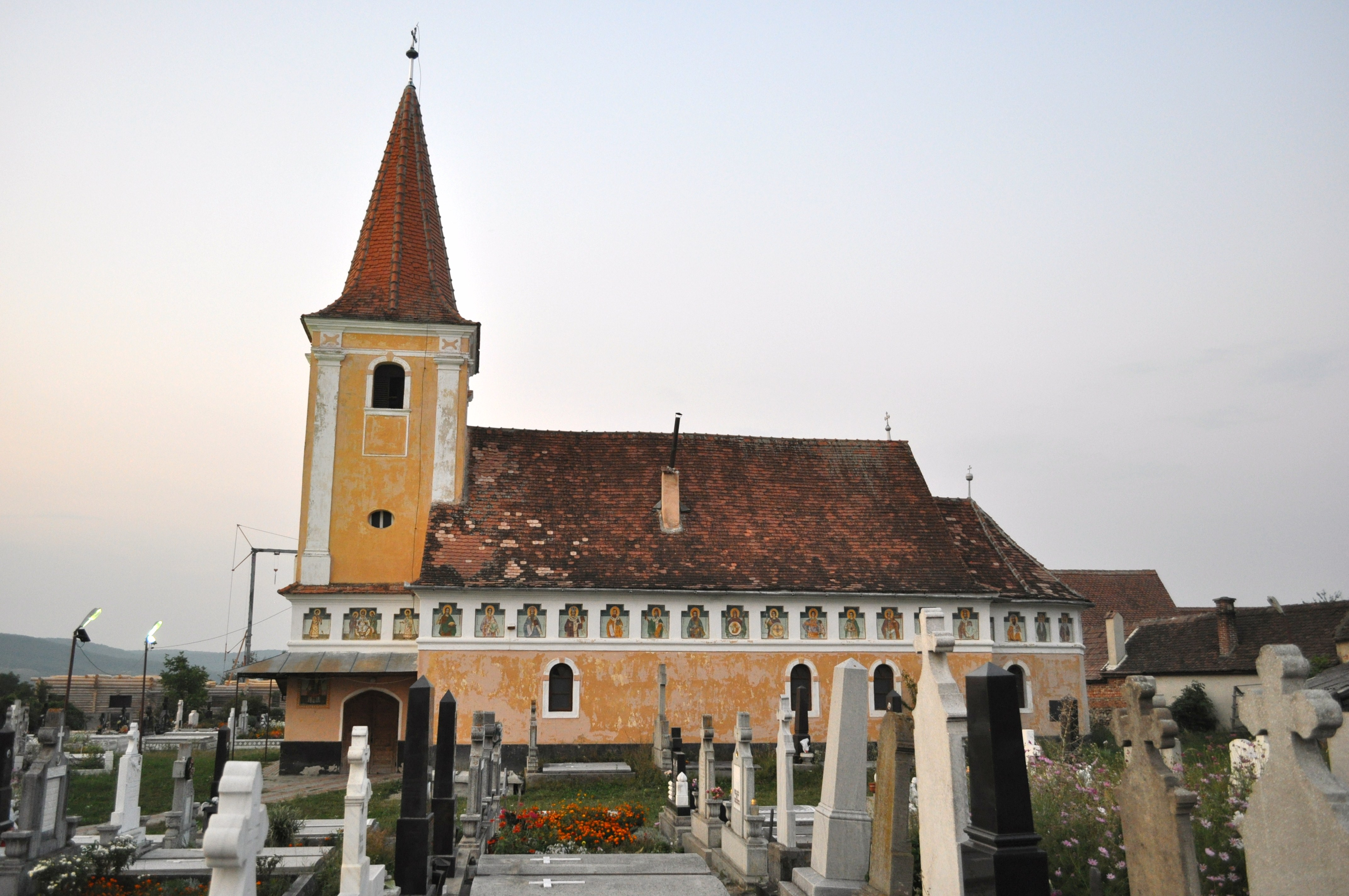 Saint Nicholas Church, Orlat, Sibiu County, Romania